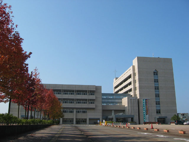 小松市役所 屋上にはja:ラジオこまつ（FM76.6MHz / JOZZ5AC-FM）の送信アンテナが併設されている 2005年11月、小松市小馬出町にてShiftが撮影 Contents 1 関連画像 2 Licensing 3 Licensing 4 Original upload log 関連画像 なし Licensing Category:石川県の官公庁画像